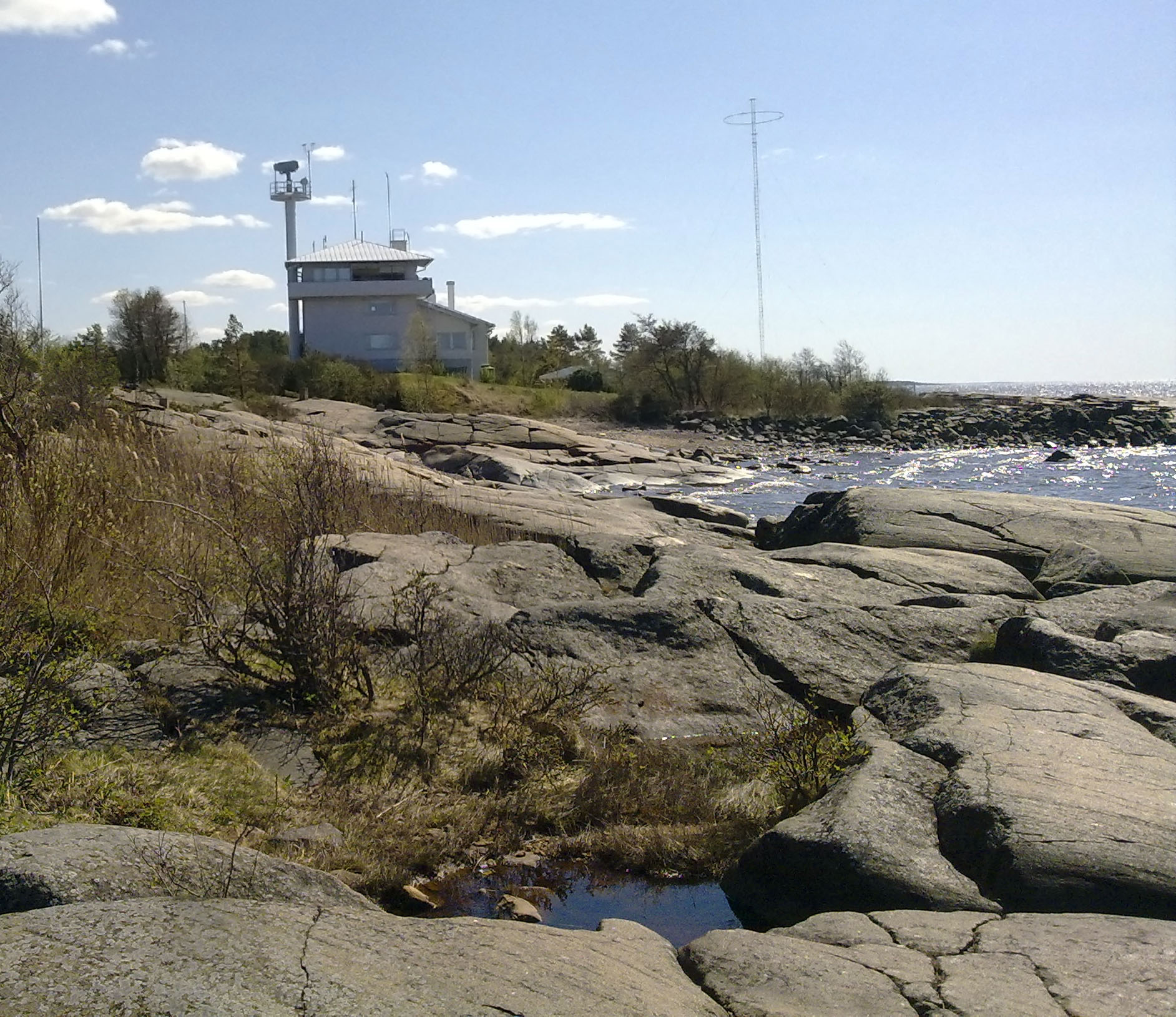 Pori Coast Guard Station in Kallo.